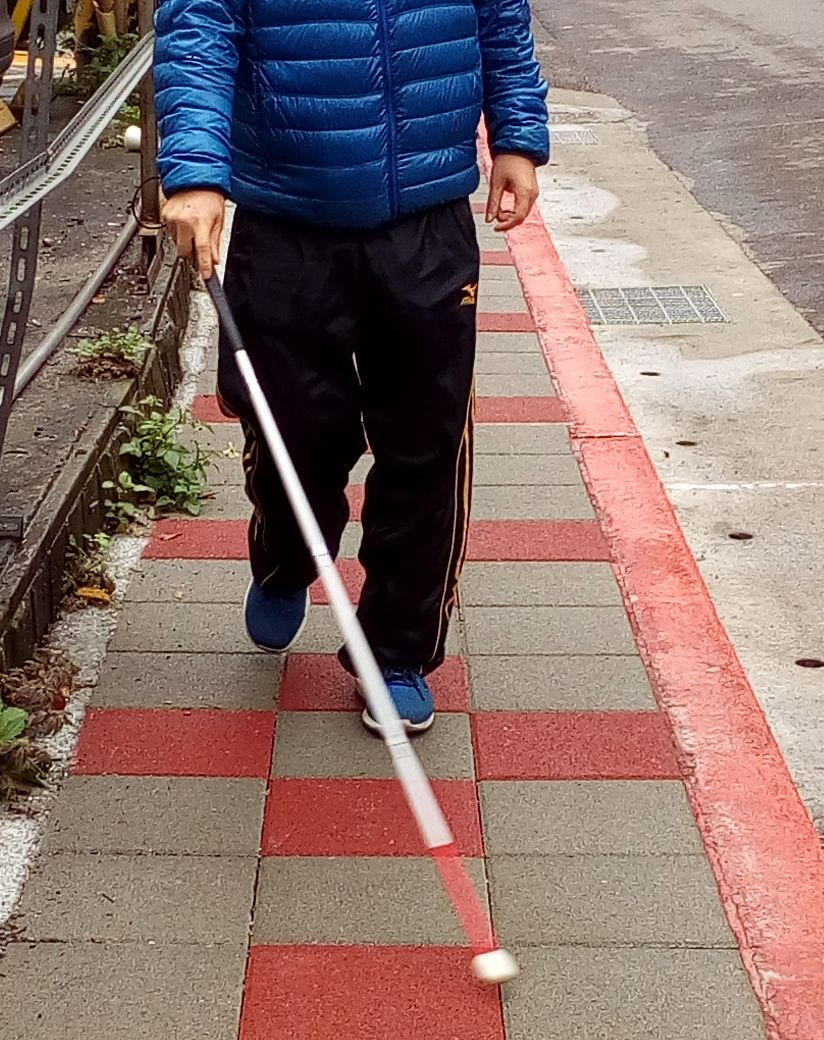 The blind is using a cane